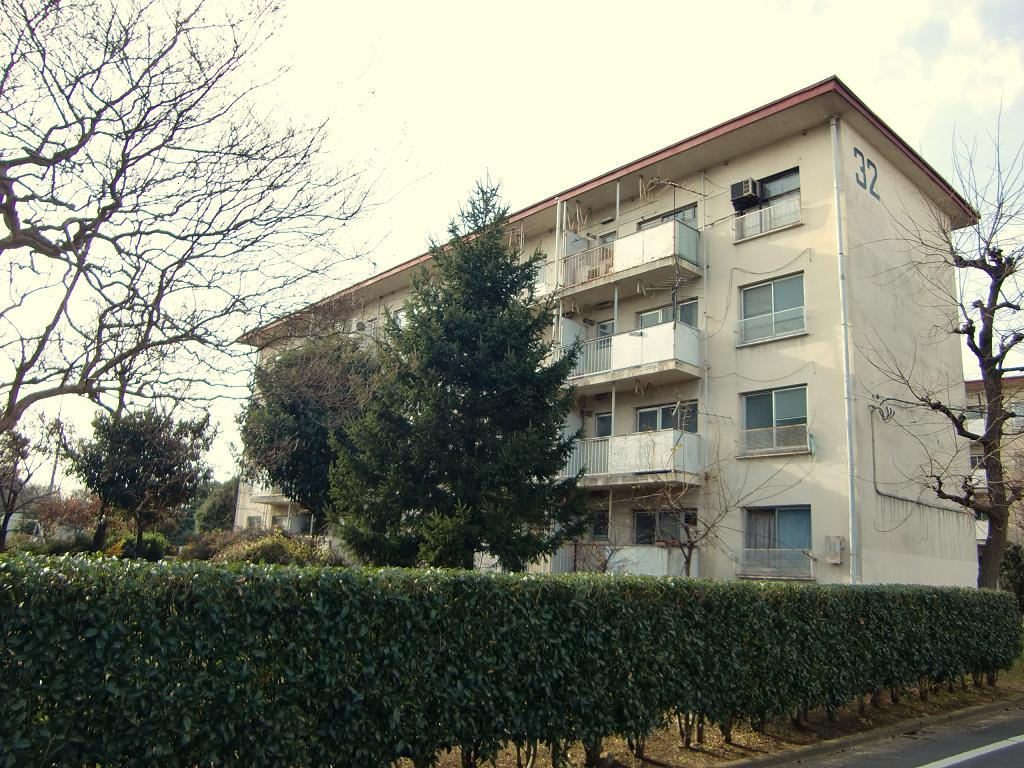 The former apartment building in Asagaya residence, Tokyo.